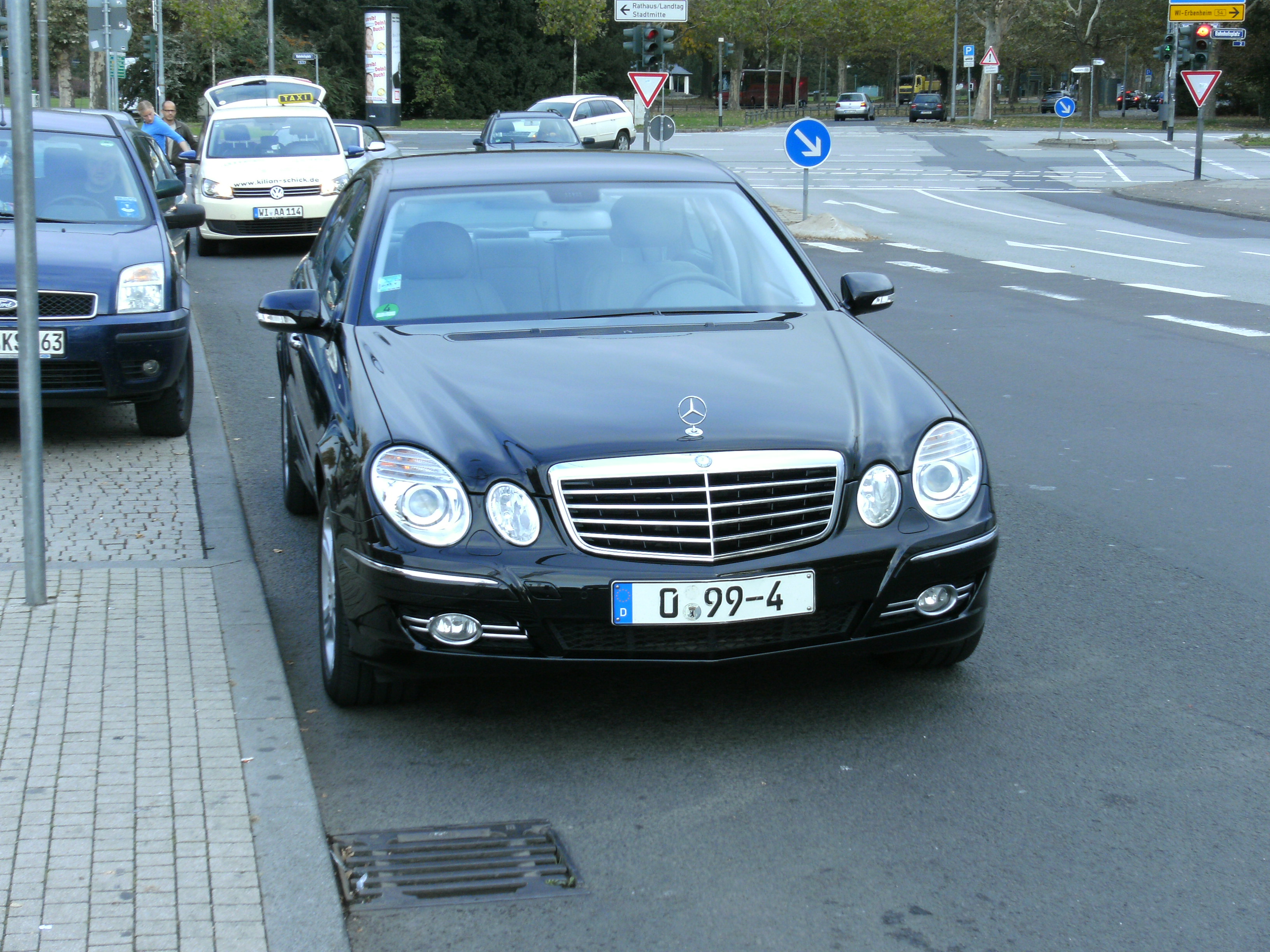 Illegal Parking of a Diplomat (from Nigeria) in front of the main railway station of Wiesbaden (Germany)